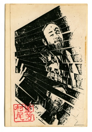 Self portrait photo-collage image of Shigeyoshi (Shig) Murao